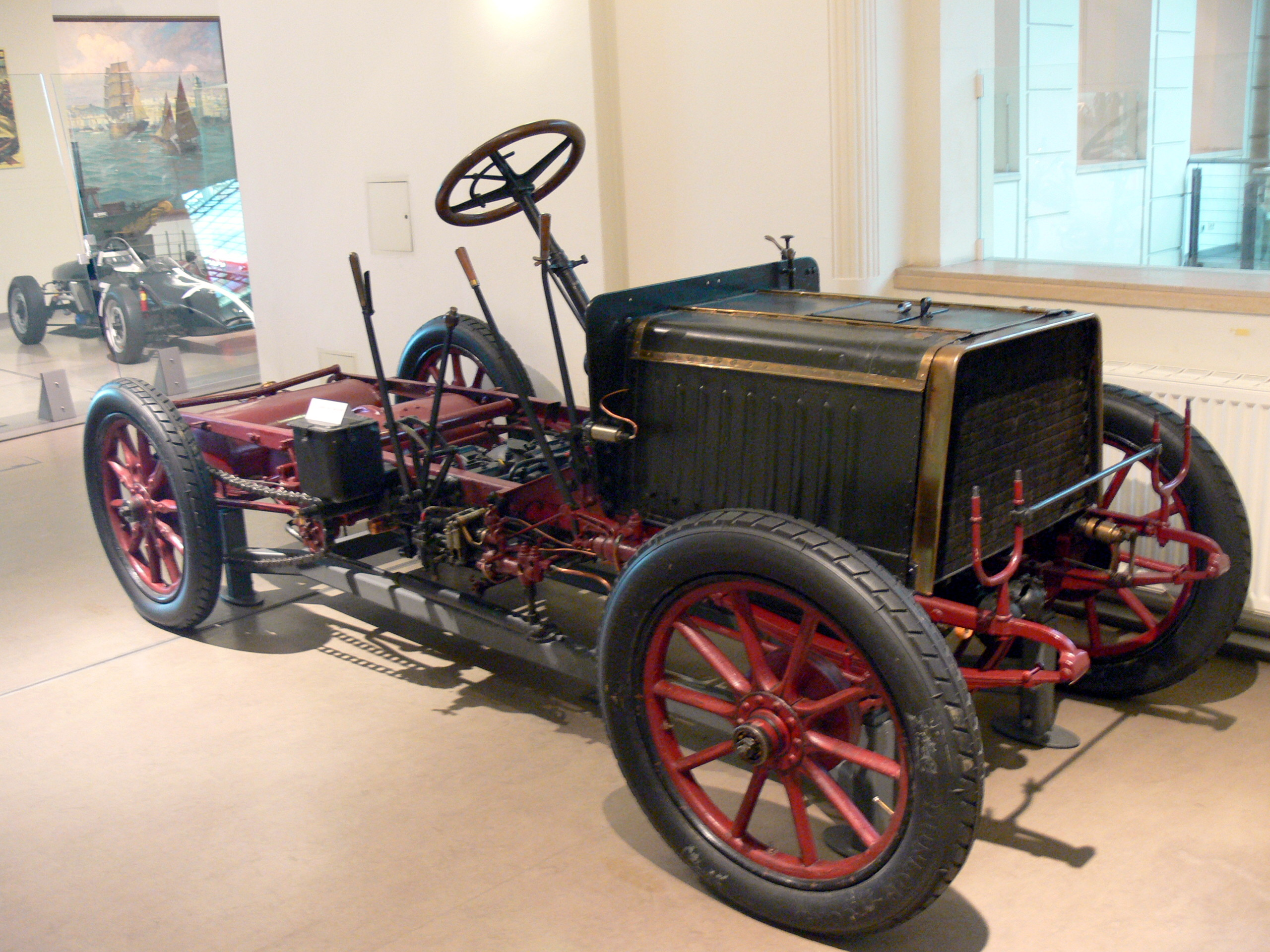 Technical Museum Vienna. Steam-powered automobil, designed by Richard Knoller ( Vienna ) in 1904.